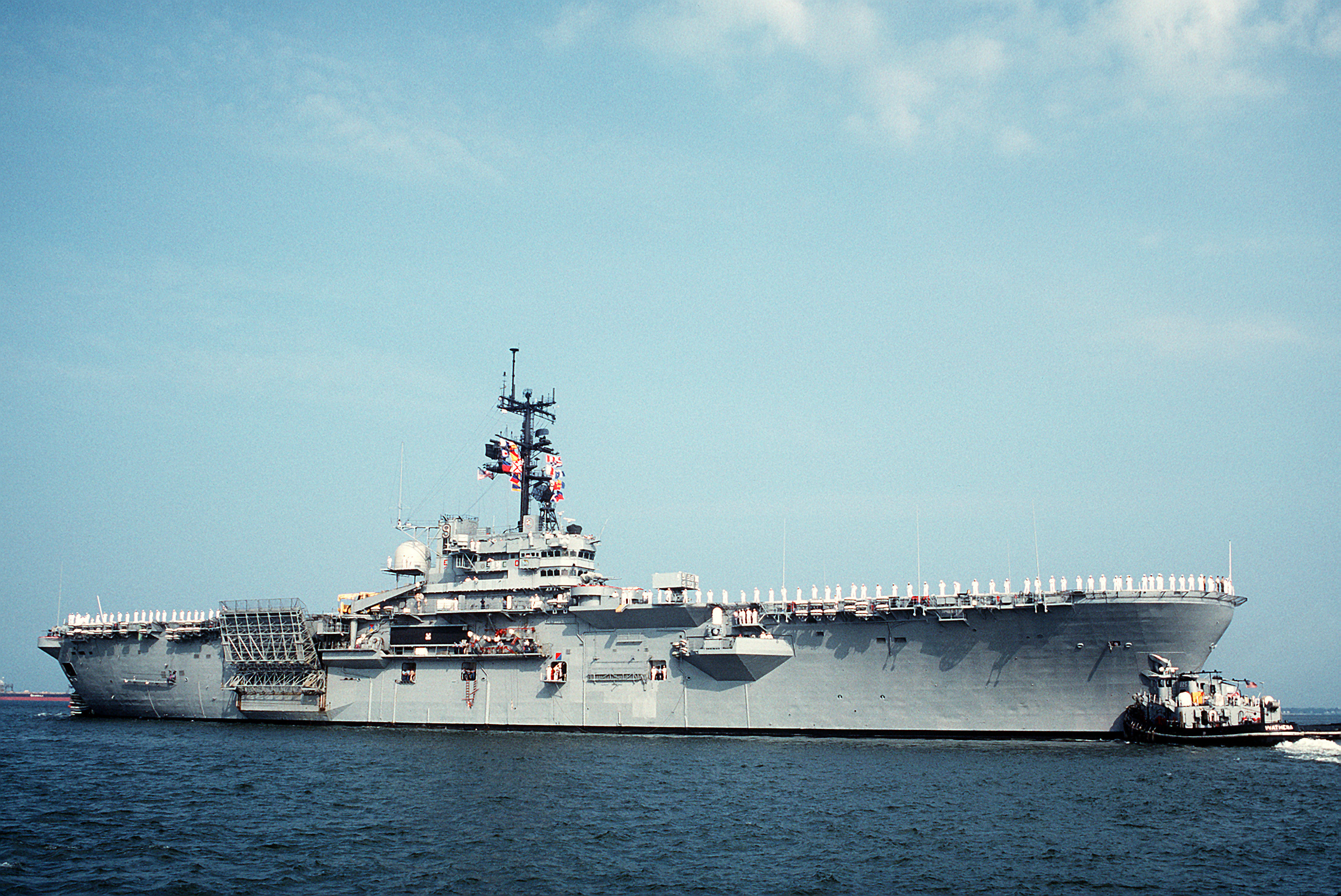 U.S. Navy sailors man the rail aboard the amphibious assault ship USS Guam (LPH-9) while the large harbour tug Watahena (YTB-825) positions the vessel as it departs from Naval Station Norfolk, Virginia (USA), on 23 August 1990. The Guam and several other ships deployed from Norfolk to the Persian Gulf.